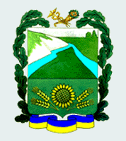 Coats of arms of Dvorichanskyj raions